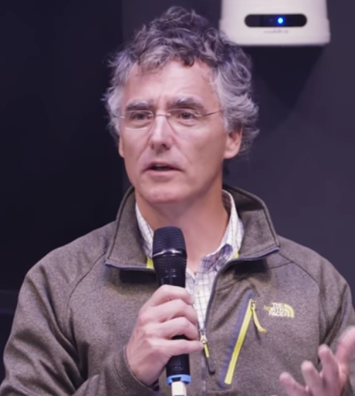 Tom Dart